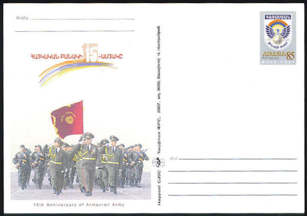 Armenian Army postal card